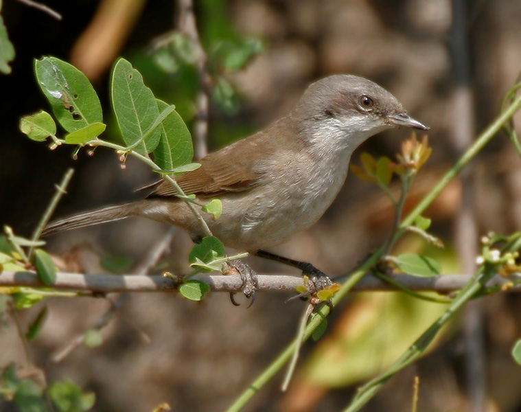 Hume's Lesser Whitethroat Sylvia althaea in Hyderabad, India.